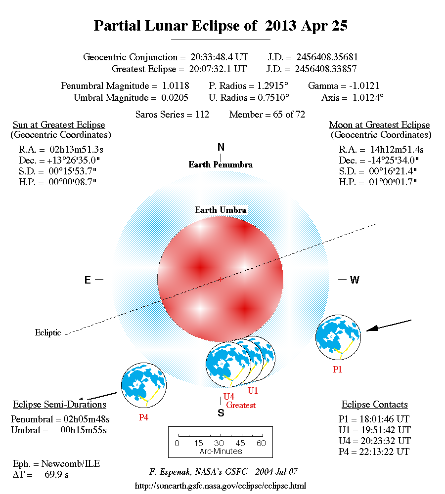 Sketch of the 2013-04-25 lunar eclipse.